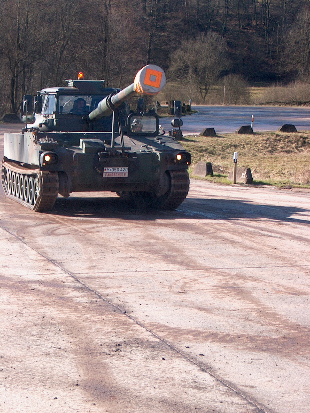 M109 driving school version of the german Bundeswehr. Aufnahme: Truppenübungsplatz Baumholder